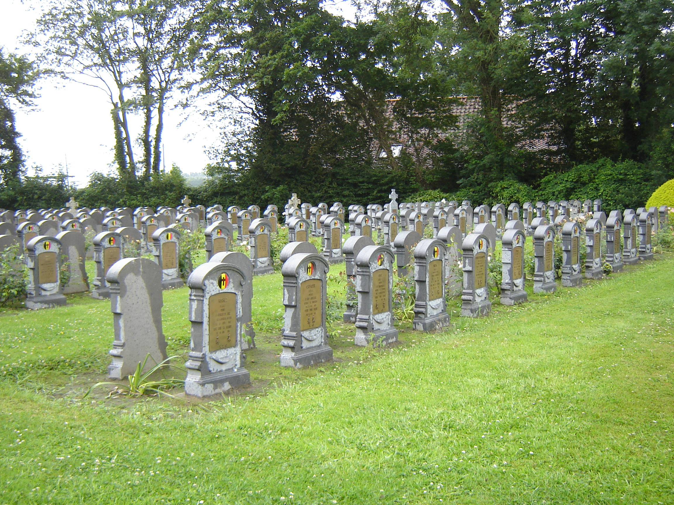 Belgian military cemetery (World War I) around the former parish church of Oeren. Oeren, Alveringem, West-Flanders, Belgium.